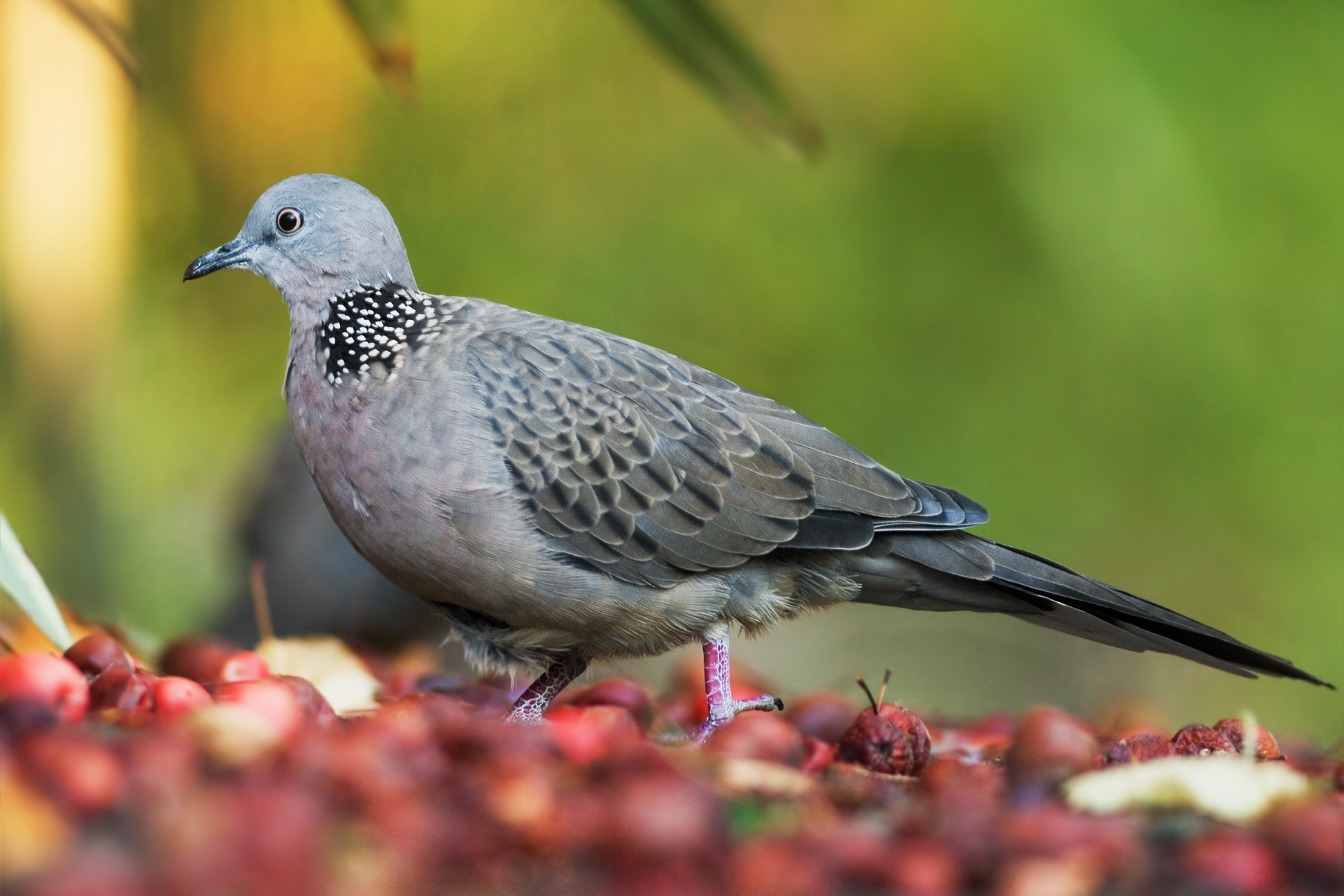 Spotted Turtle Dove (Streptopelia chinensis), Austins Ferry, Tasmania, Australia Camera data Camera Canon EOS 400D Lens Canon EF 400mm f5.6L Focal length 400 mm Aperture f/5.6 Exposure time 1/160 s Sensivity ISO 400